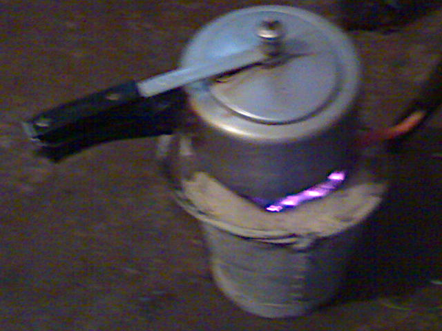 Sgri stove